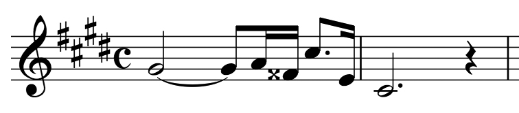 The leitmotif associated with Salome in the opera Salome (1905) by Richard Strauss. Created using Sibelius.